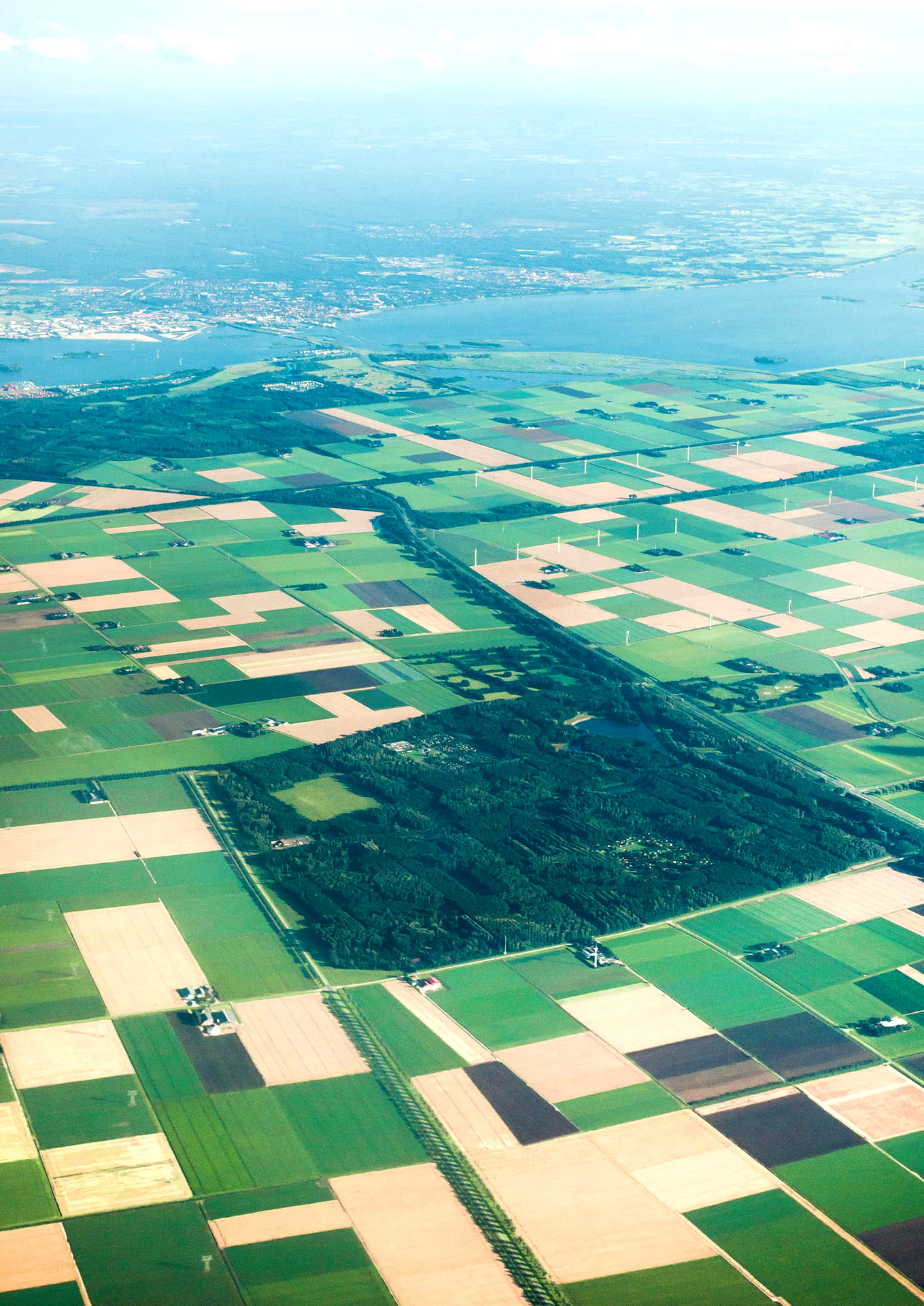 Aerial view of the Larserbos in the foreground, and in the background the Harderbos, the Wolderwijd lake and the town of Harderwijk. Elevation is around 2000 metres/6000 feet.